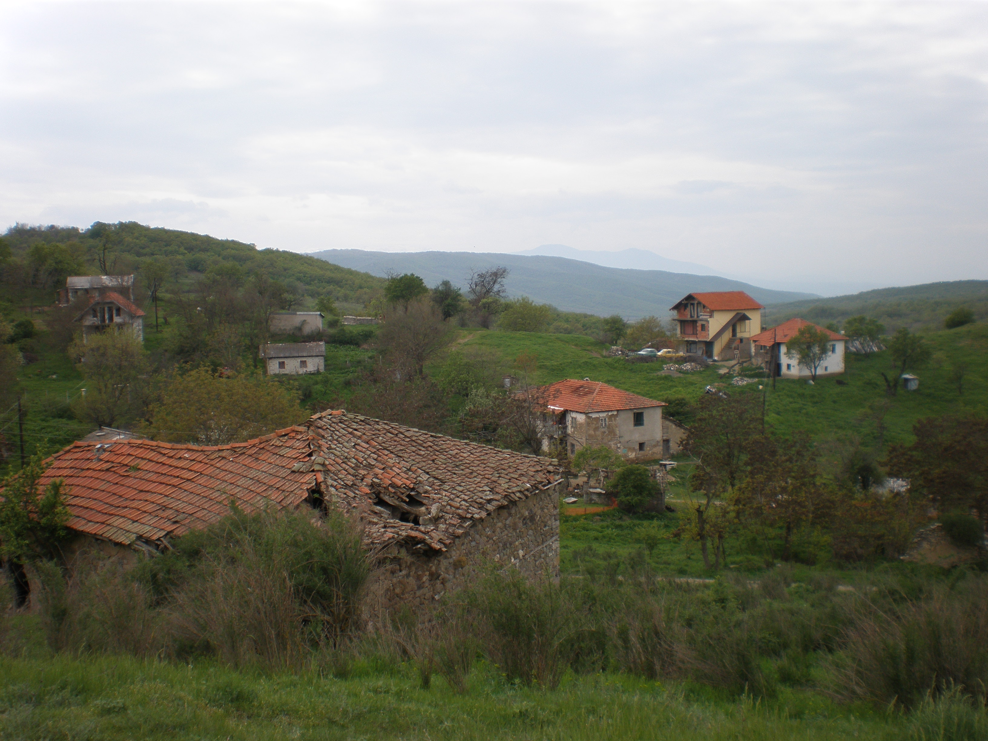 village of Dzidimirci, Veles Municipality, Macedonia